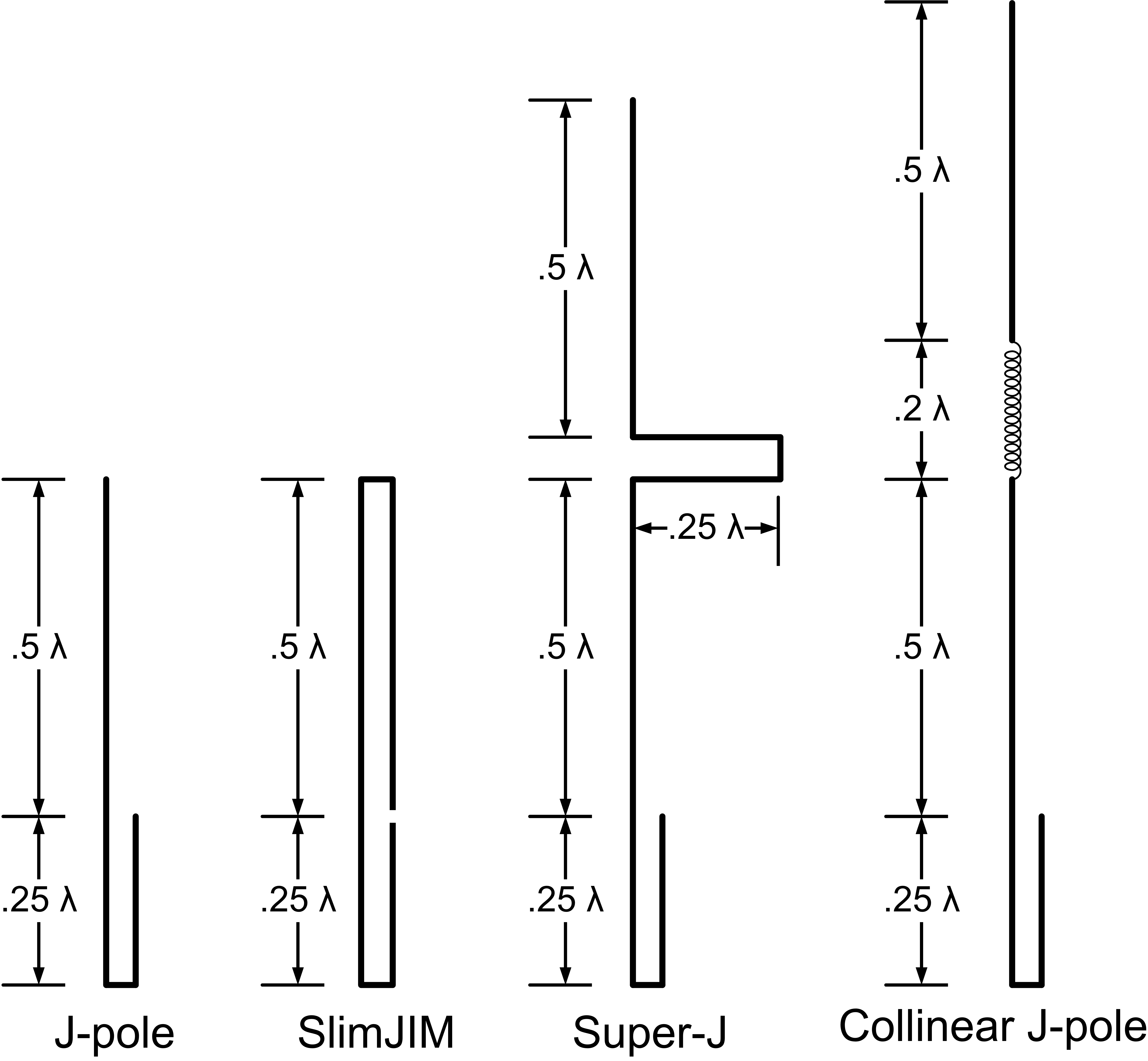 The J-Pole has several variations of which three are shown here: Slimjim, Super J and Collinear J-pole antennas.